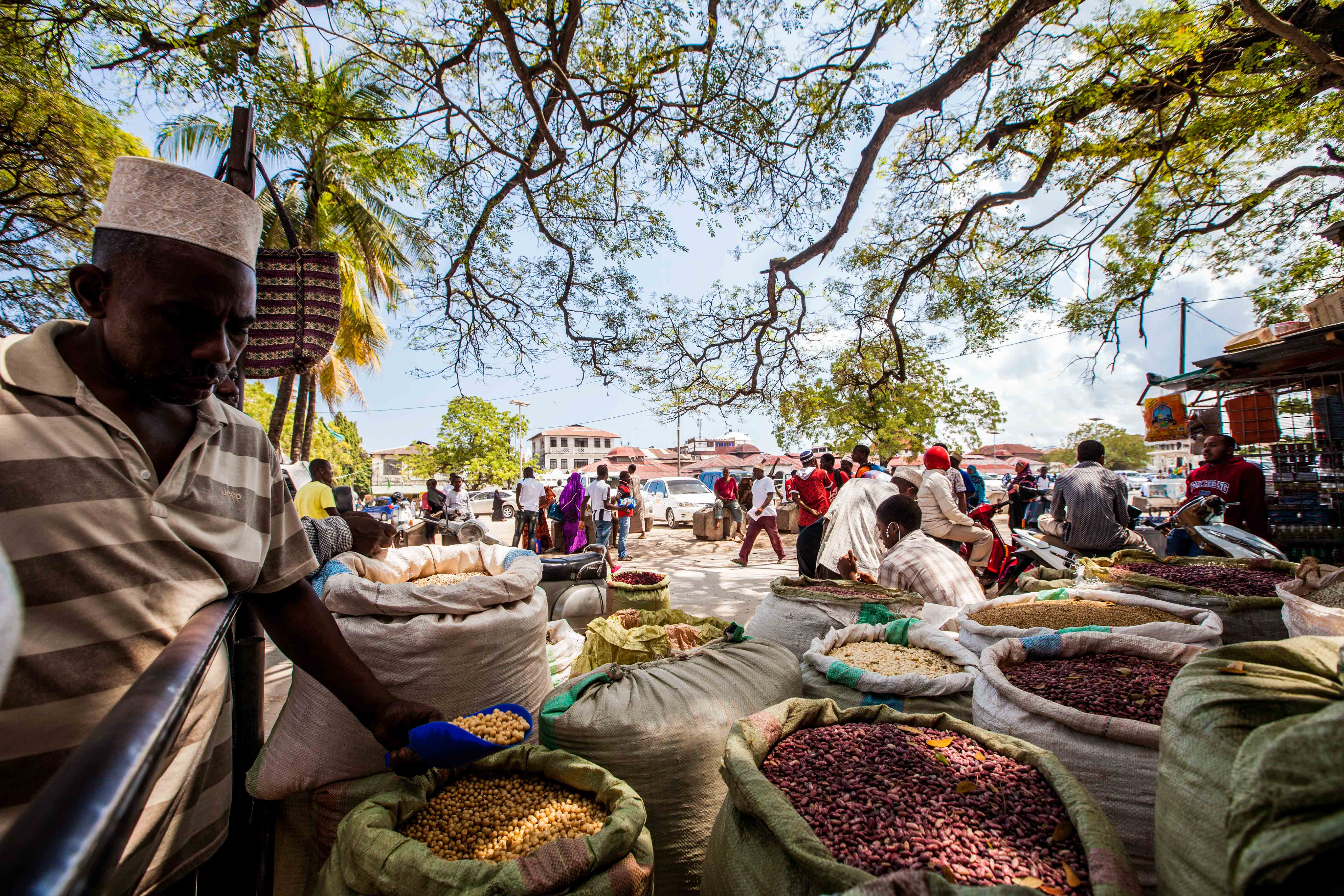 Under the shade of this huge trees, Eddy is selling seeds, cerels and beans of all types. A goldmine for the ones who can come to Darajani market, this local market on the periphery of Stone Town, Zanzibar. Darajani Market is one of the central markets in Stone Town. If you're interested in daily life and culture, make sure you visit the market. This is an image of "African people at work" from Tanzania